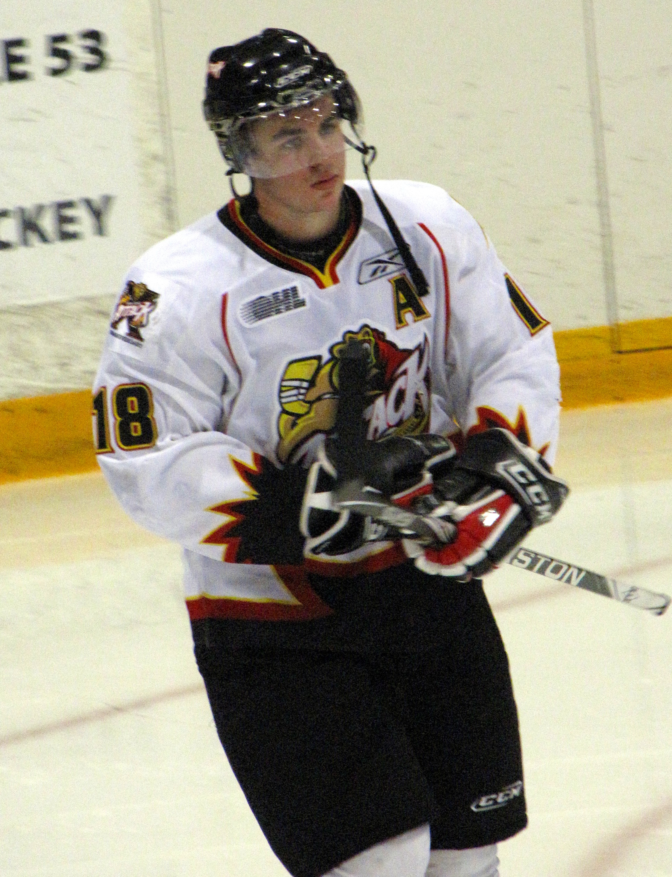 Joey Hishon of the Owen Sound Attack during a game against the Niagara Ice Dogs